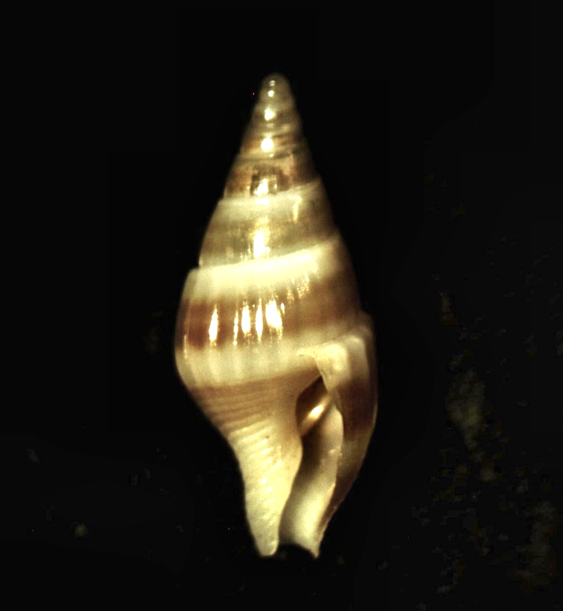 Cosmioconcha helenae Costa, 1988, a dove snail from the family Columbellidae; Brazil